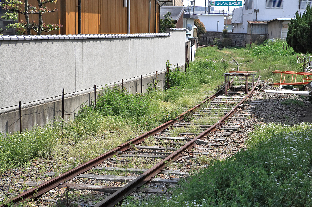 An abolished line trace between Nishi-Gobō Station and Hidakagawa station of the Kishu Railway Line.